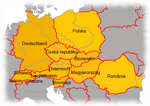 A larger version map of Central European countries with official names.